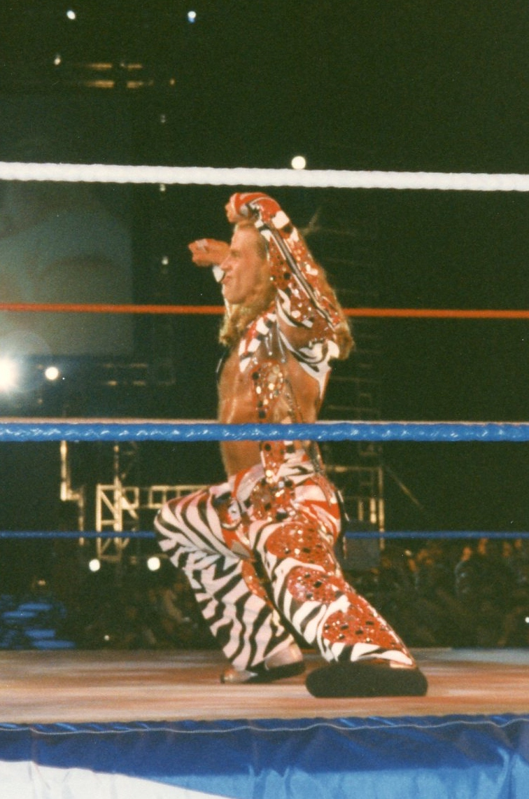 Shawn Michaels before his match at WWF One Night Only in Birmingham, England